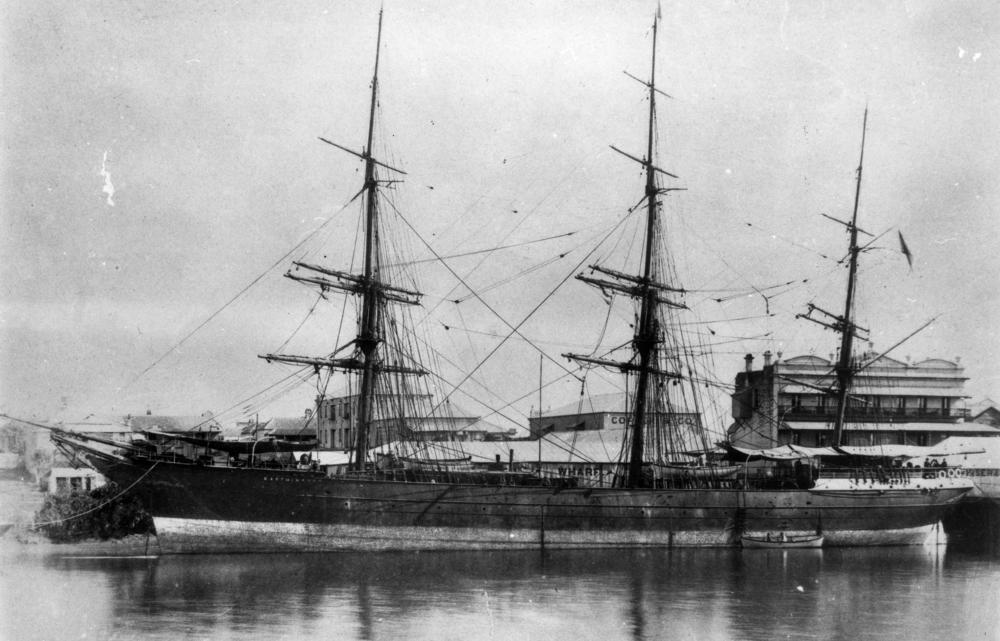 Eastminster (ship). Eastminster in the late 1880s, at Walker’s Wharf, Mary River, Maryborough Queensland. "Wreck in 1888".[1] Eastminster. Master, W. Mosey. 1145 tons. Iron ship, built in Port Glasgow, launched June 1876. Home port London. E.W. Berryman, owner. 226 ft. x 35 ft. 3 in x 20 ft. 5 in.[2]